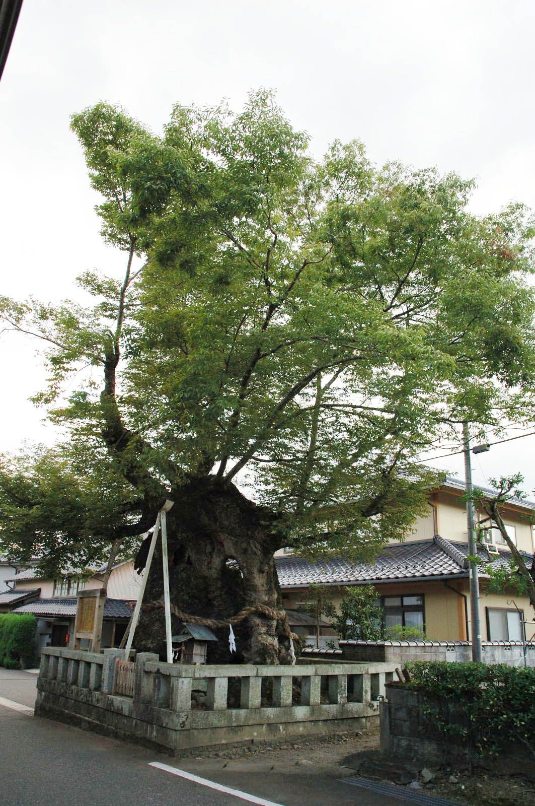 The zelkova of the sacred tree